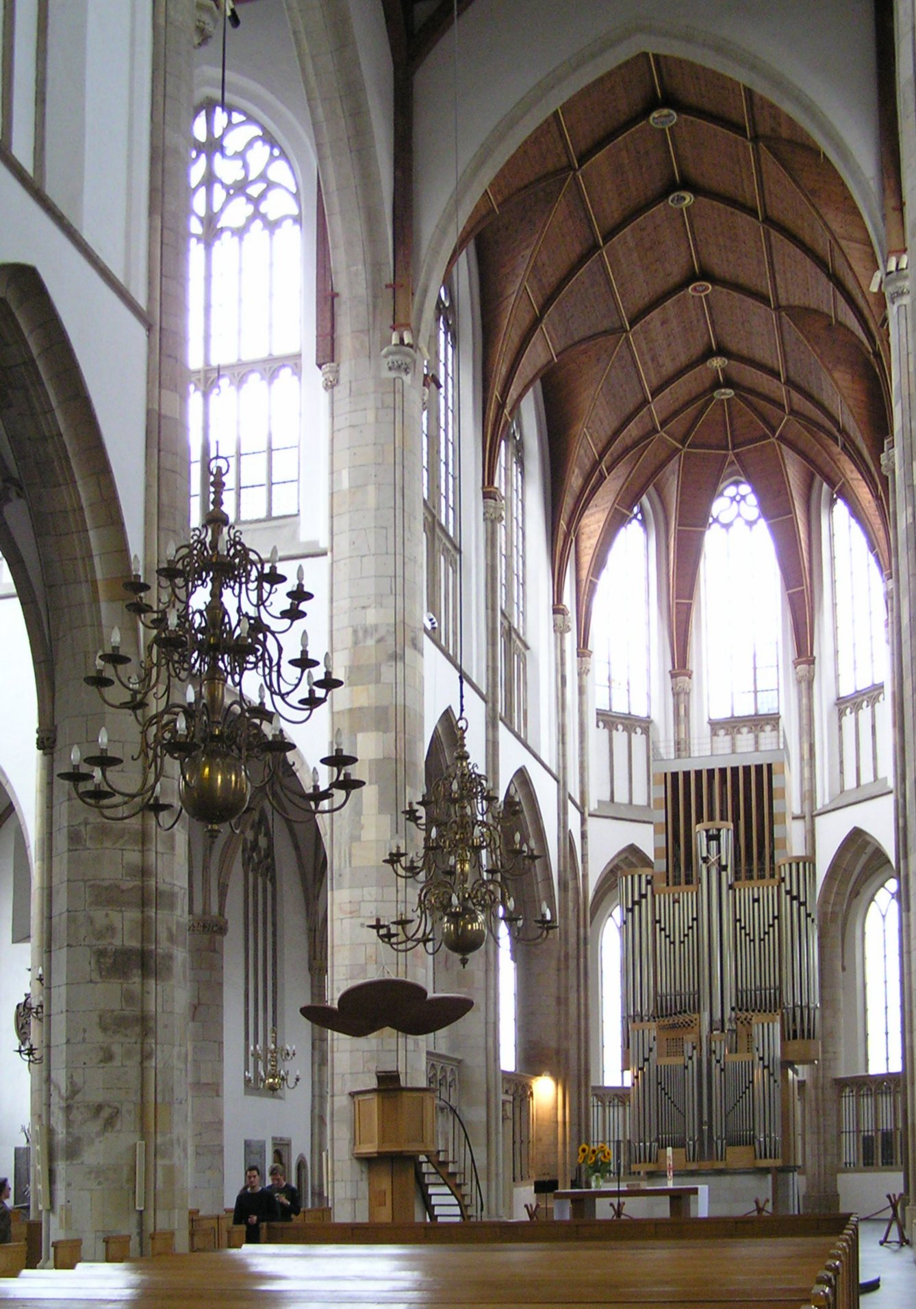 Inside the Willibrordi-Dome, Wesel